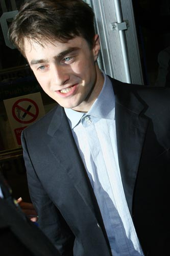 Daniel at the premiere of December Boys that took place at the Odeon Covent Garden, London.